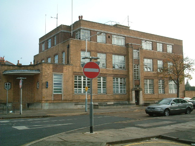 Hayes End Police Station. Side view from other side of Morgans Lane.